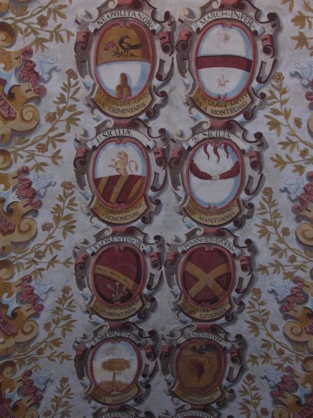 Old students decorations in Palazzo dell'Archiginnasio. Picture by Paolo Carboni (myself).